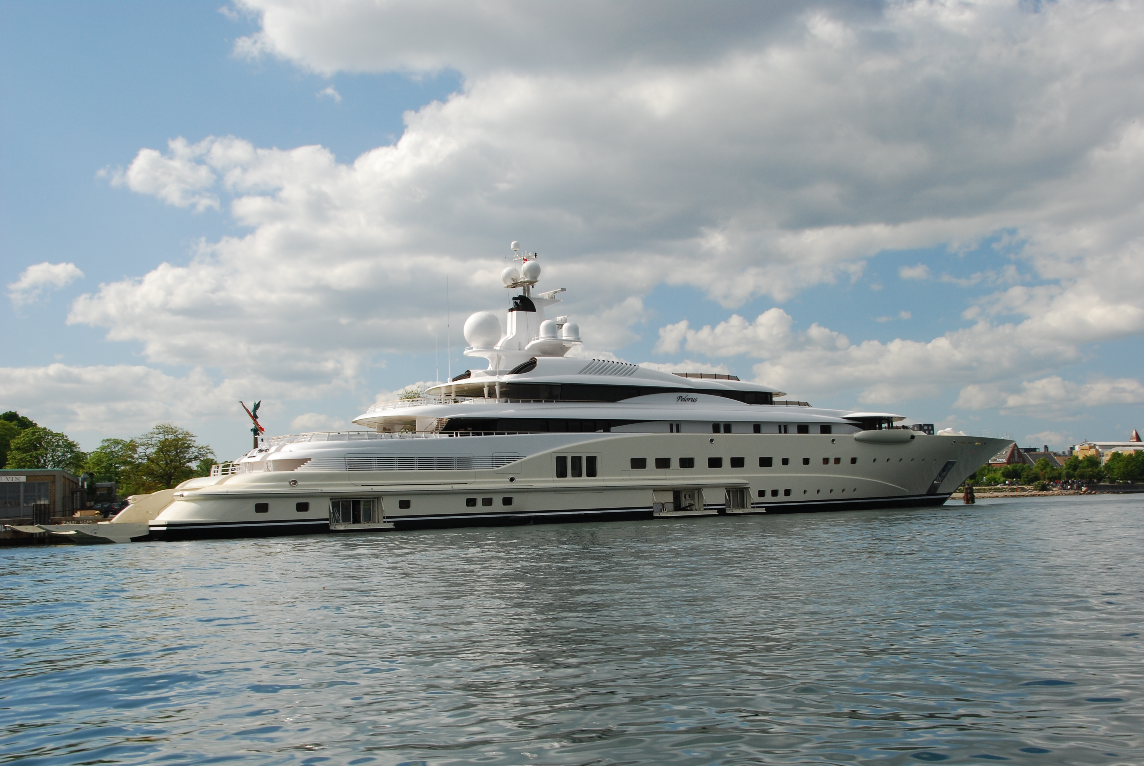 Roman Abramovich's yacht Pelorus at the quayside in Copenhagen harbour